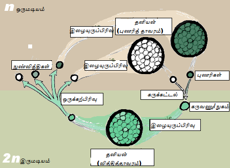 Original file File:Sporic meiosis.png in wikipedia commons